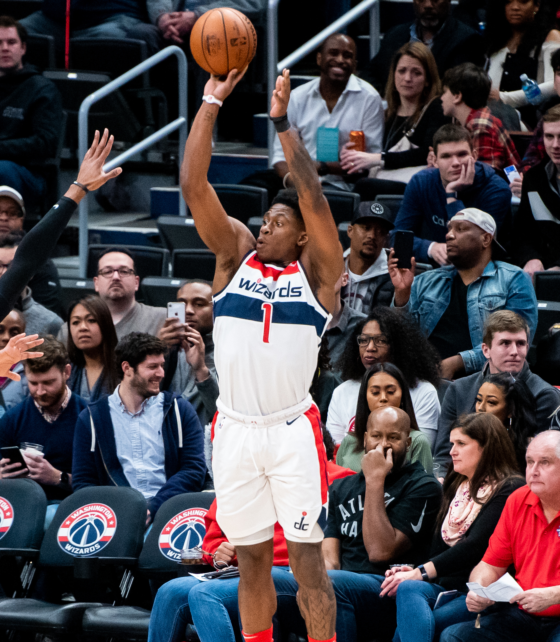 Admiral Schofield shooting for the Wizards